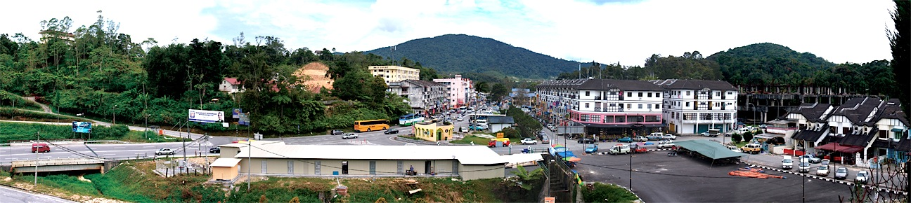 Township of Tanah Rata, Cameron Highlands, Pahang, West Malaysia. Author: See Kok Shan